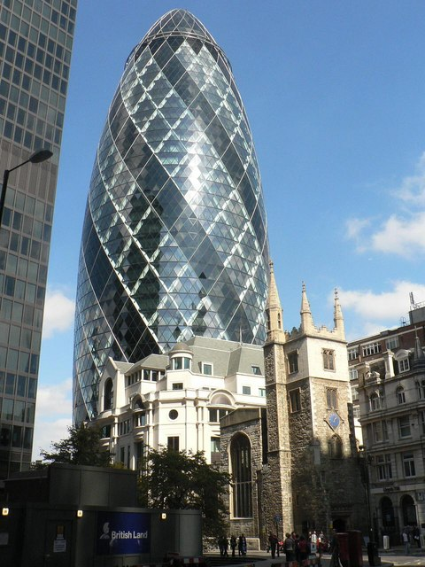 City of London: old and new intermixed The 16th-century 558592 is overlooked by the 21st-century 'Gherkin' (493190).